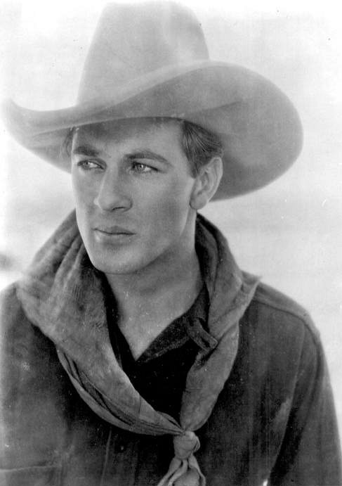 Gary Cooper publicity photo for the American western film The Winning of Barbara Worth (1926).